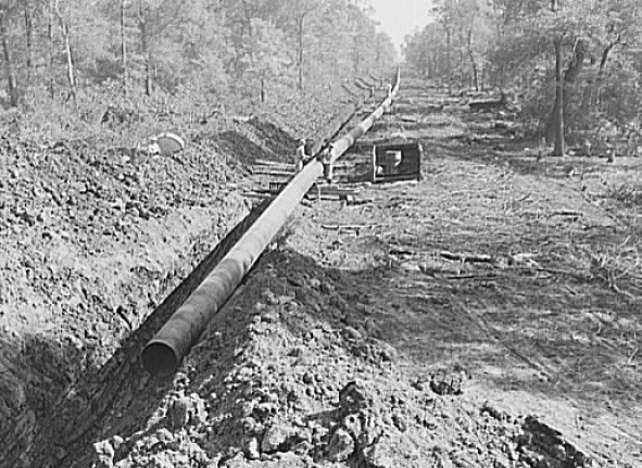 Arkansas-Texas state line to Gurdon, Arkansas. War emergency pipeline from Longview, Texas to Norris City, Illinois. Right-of-way of war emergency pipeline running through wooded land Rights advisory: No known restrictions. For information, see U.S. Farm Security Administration/Office of War Information Black & White Photographs(